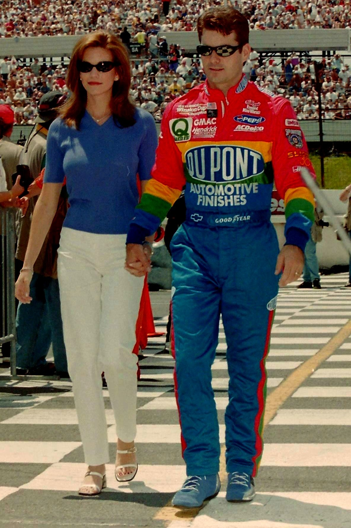 Brooke and Jeff Gordon, cropped from original